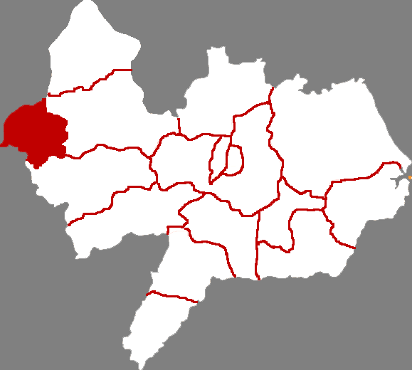 Location of Suning county in Cangzhou City, China